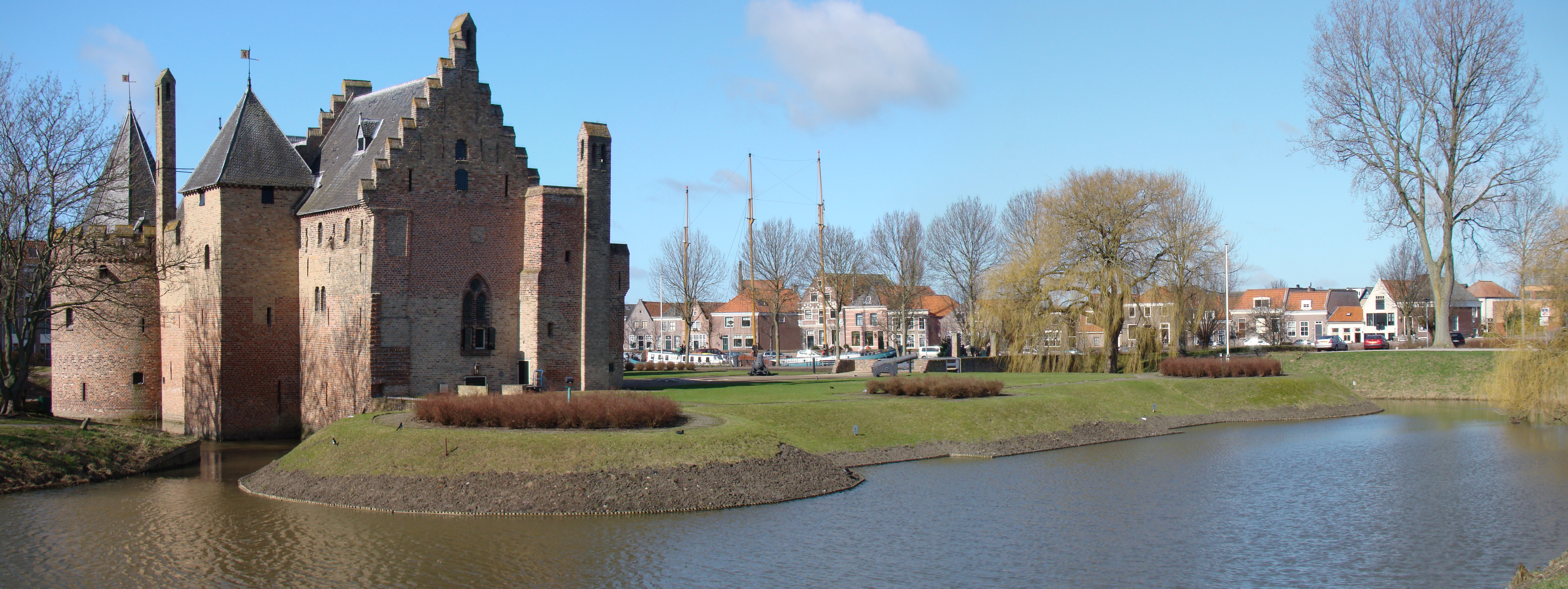 Castle Radboud at Medemblik Netherlands